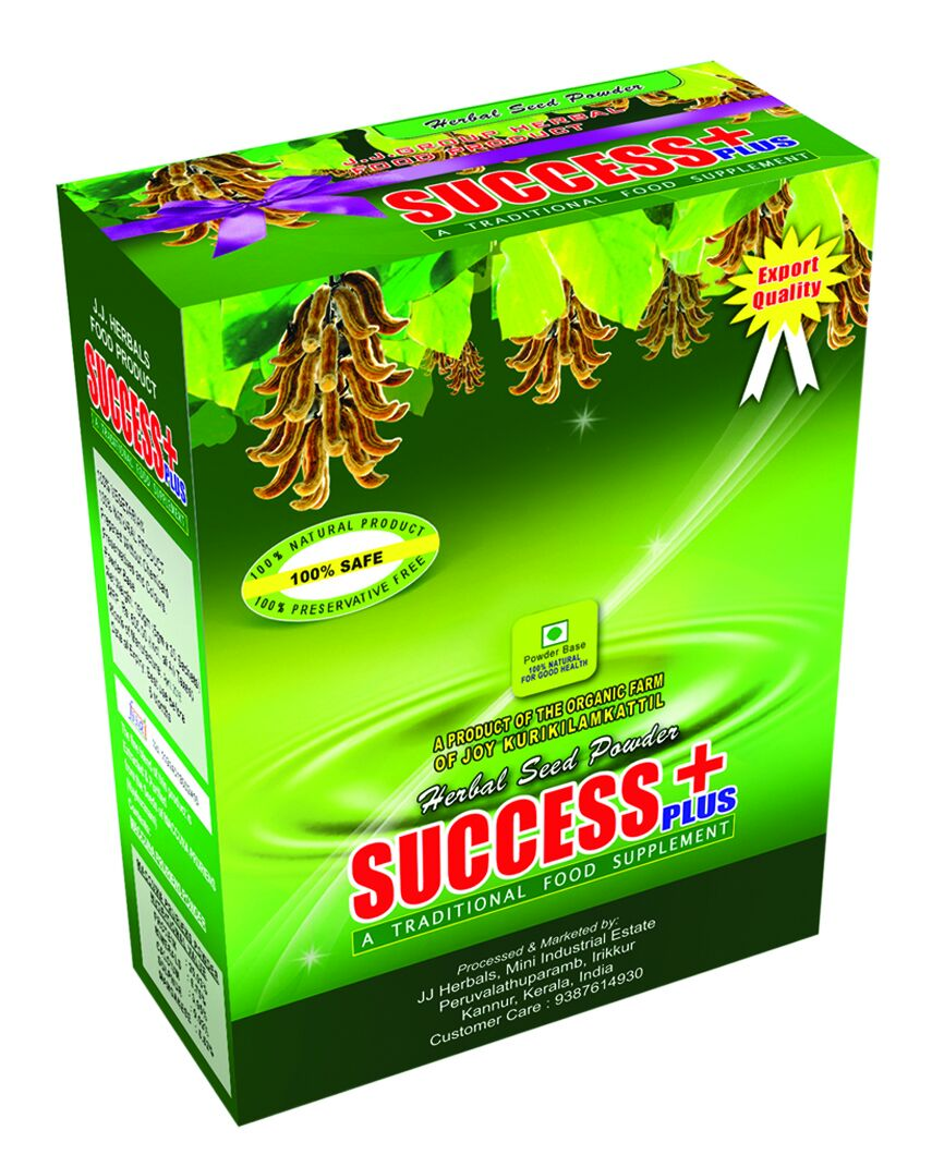 nayikurana paripppu powder(mucuna pruriens )